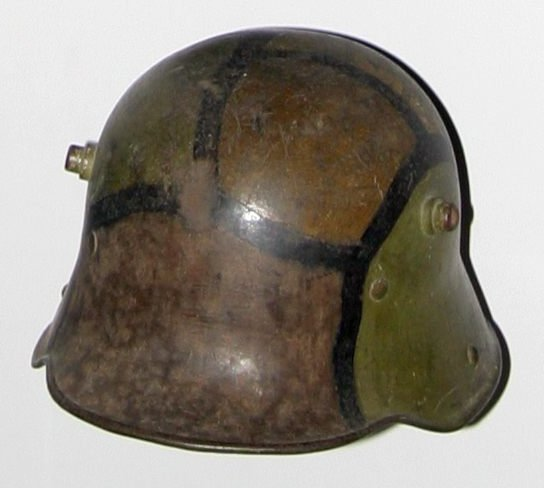 Stahlhelm, Germany, World War I. The nuts for the addition of the add-on so-called "Brow armor" are clearly visible.